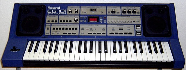 Roland EG-101 (Groove-Keyboard, Synthesizer)